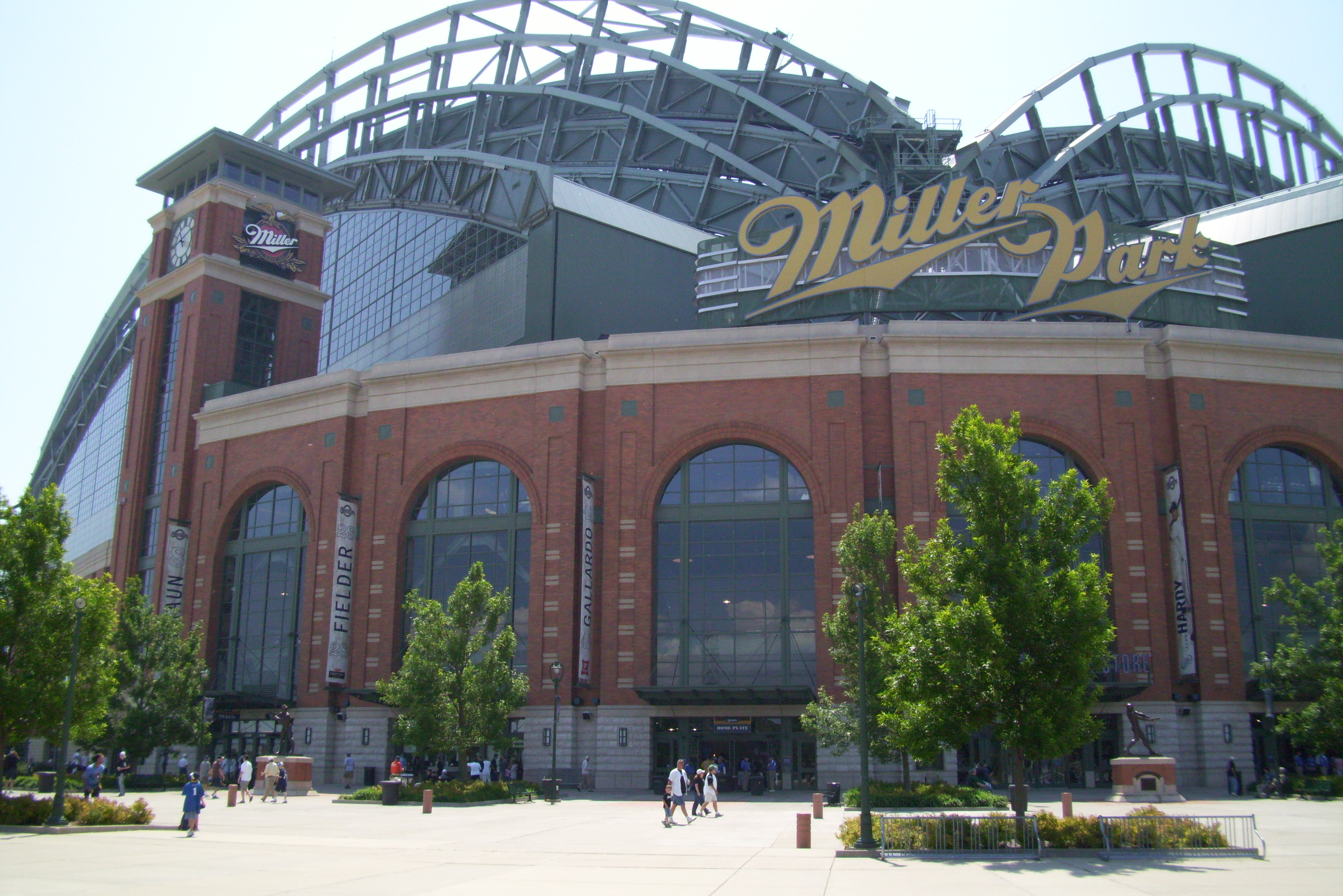 Outside of Miller Park in Milwaukee, Wisconsin.